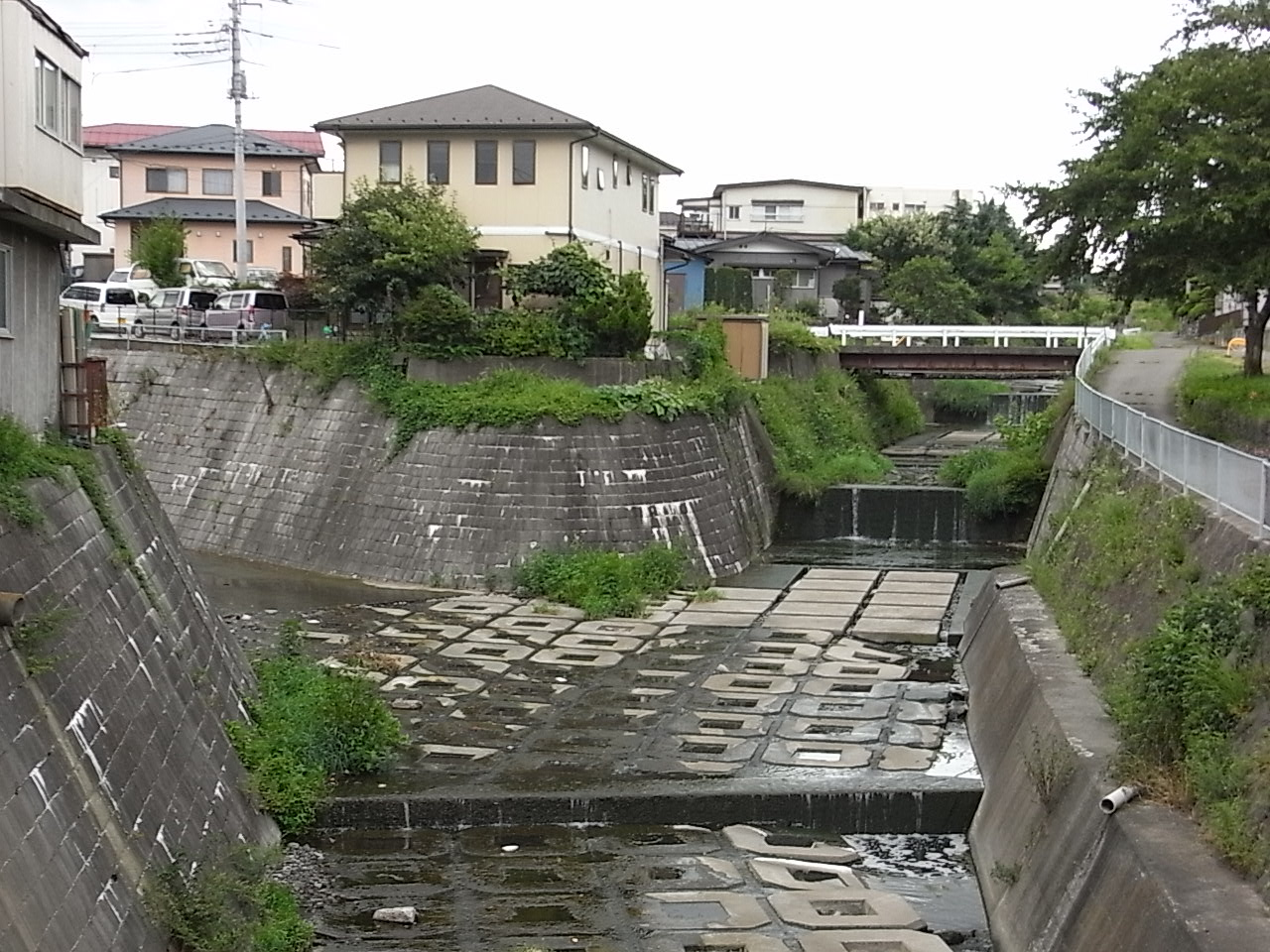 Miya River and Kandabori River. Matsuyama, Fujiyoshida, Yamanashi prefecture, Japan. Here and right is the Miya River (Miya-kawa). Left is the Kandabori River. Matsuyama Bridge is over the Miya River.